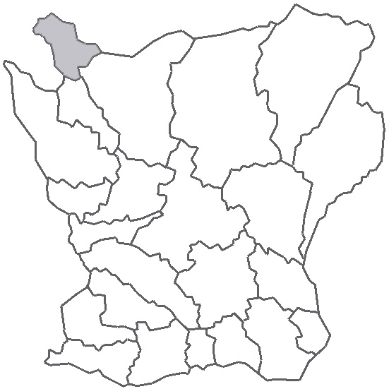 Map describing the location of Bjäre Hundred in the province of Skåne, Sweden.